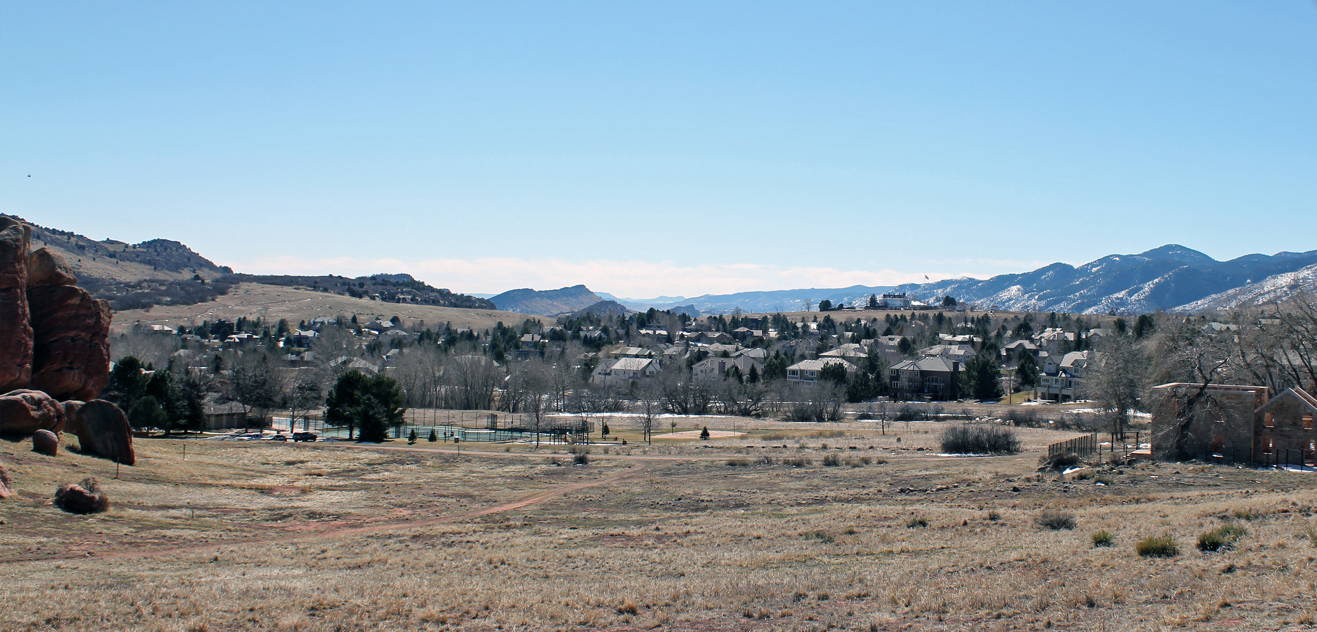 The community of Ken Caryl, located in Jefferson County, Colorado. The view is of the North Ranch section looking south. Ken Caryl is also called Ken Caryl Ranch.